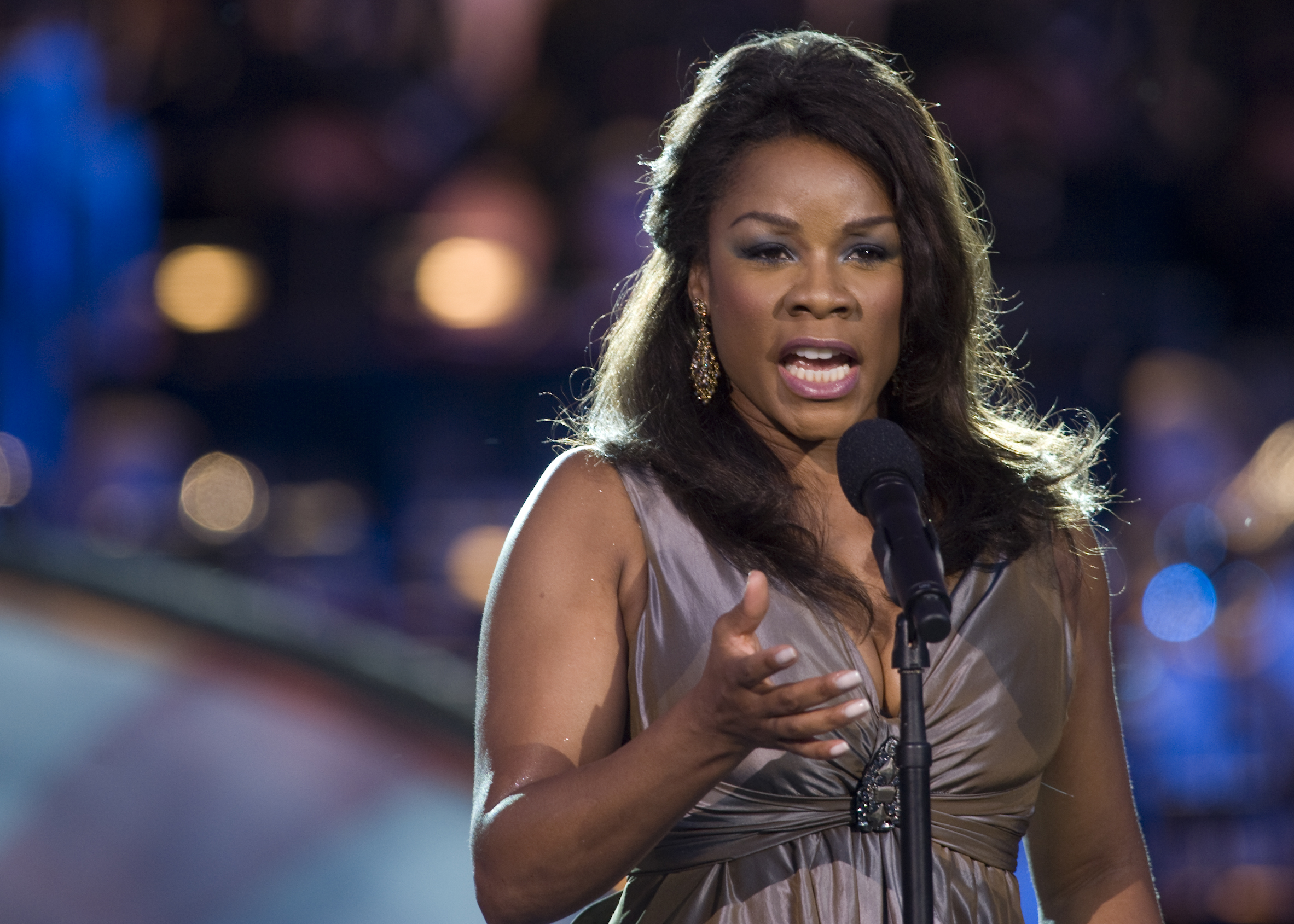 Vocalist Denyce Graves performs "The Battle Hymn of the Republic" for the audience gathered on the West Front of the U.S. Capitol for the PBS National Memorial Day Concert in Washington, D.C., May 24, 2009.